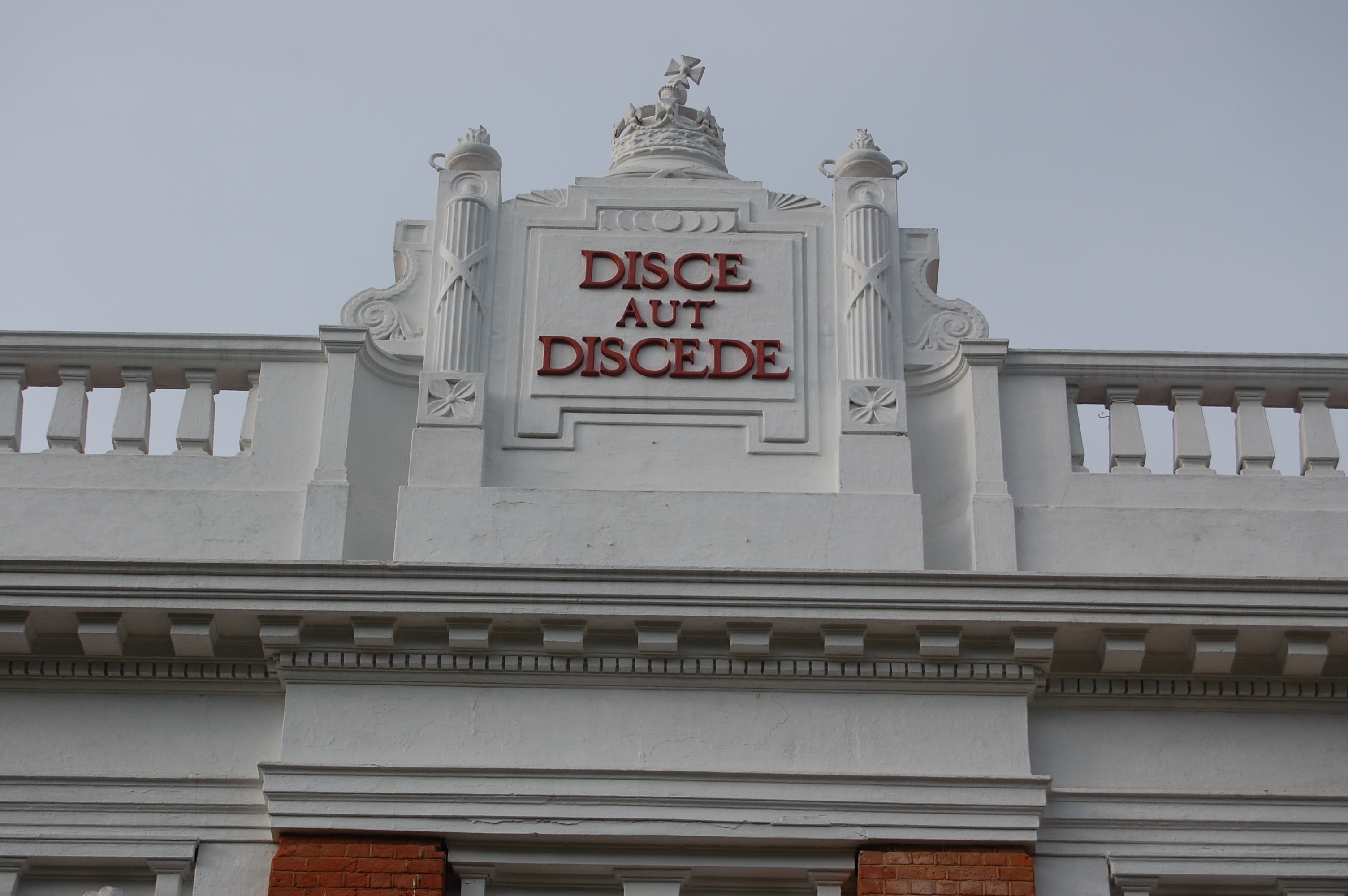 Royal College motto. Own work by uploader.